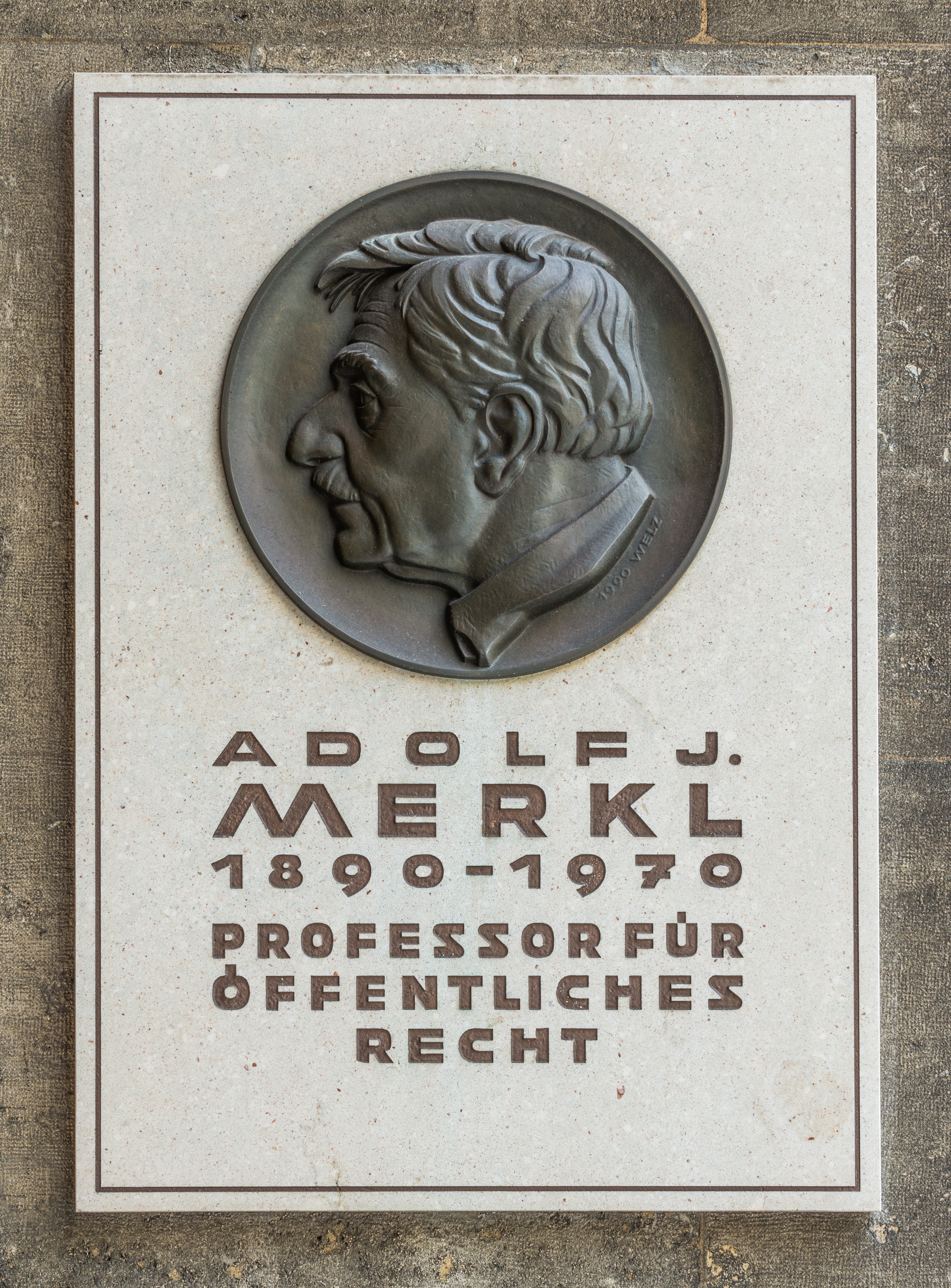 Adolf Merkl (1890-1970), relief (bronze) in the Arkadenhof of the University of Vienna, (Maisel# 23). Artist: Ferdinand Welz (1915-2008), unveiled 1990 The making of this work was supported by Wikimedia Austria. For other files made with the support of Wikimedia Austria, please see the category Supported by Wikimedia Österreich.